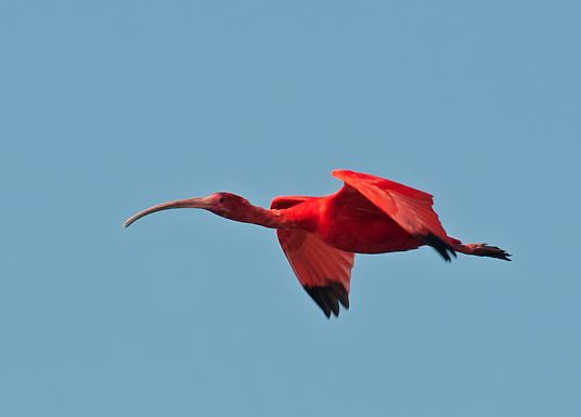 A Scarlet Ibis flying in Cubatão, São Paulo, Brazil.